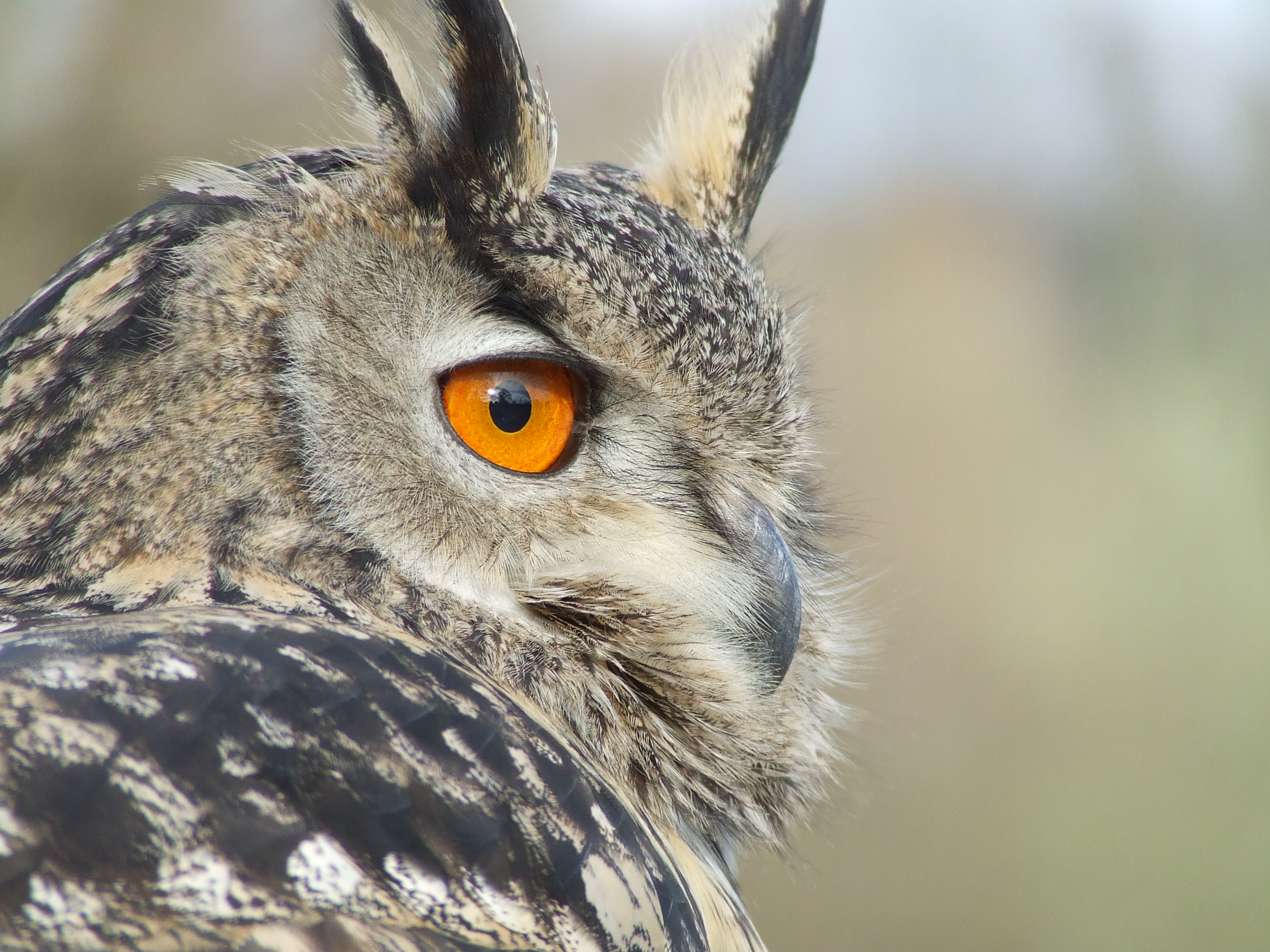 A Eurasian Eagle Owl (Bubo bubo).